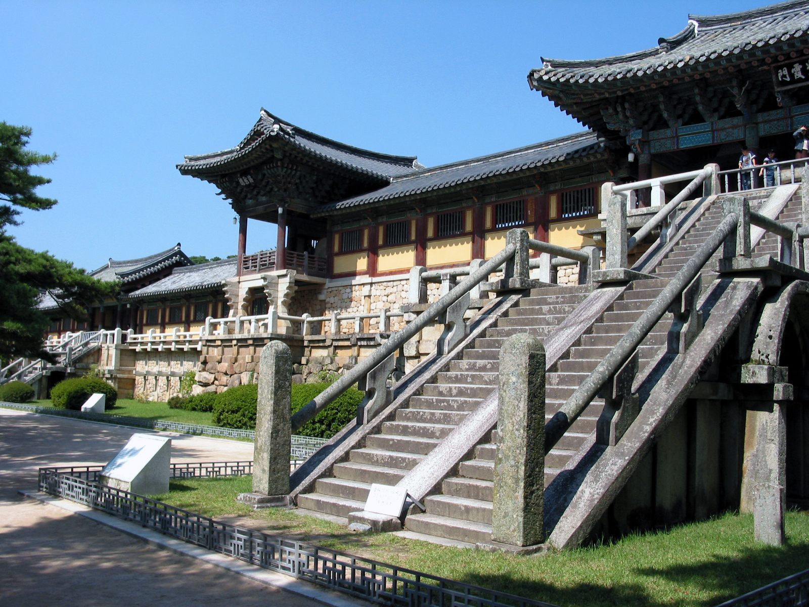 Cheongungyo and Baegungyo Bridges of Bulguksa Temple (National Treasures No.23 of South Korea) The Blue Cloud Bridge and White Cloud Bridge are in the foreground while the Lotus Flower Bridge and Seven Treasure Bridge are in the background.